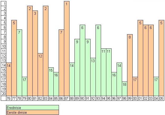 Dutch league positions of Volendam, last 30 seasons